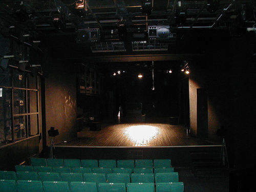 MXAT (Moscow Art Theatre School) stage. 2004. Photo taken by me.